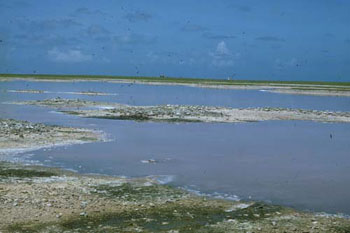 View of Enderbury lagoon from shore. Enderbury Island, Phoenix Islands, Kiribati. Original field notes: Enderbury is a filled-in atoll with central salty lagoon on variable size.